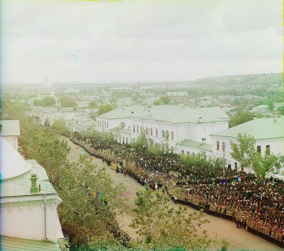 Title Translation: View from the bell tower of the Trinity cathedral (of the Trinity Monastery) on Cathedral Square in Belgorod, during the celebration of the canonization of Ioasaf of Belgorod, September 4, 1911 (Uncovering of the relics of Saint Ioasaph, Bishop of Belgorod) Title: [Vid s kolokol'ni Troitskogo sobora (odnoimennogo muzhskogo monastyria) na Sobornuiu ploshchad' Belgoroda vo vremia torzhestv proslavleniia Sviatitelia Ioasafa Belgorodskogo 4 sentiabria 1911 goda]